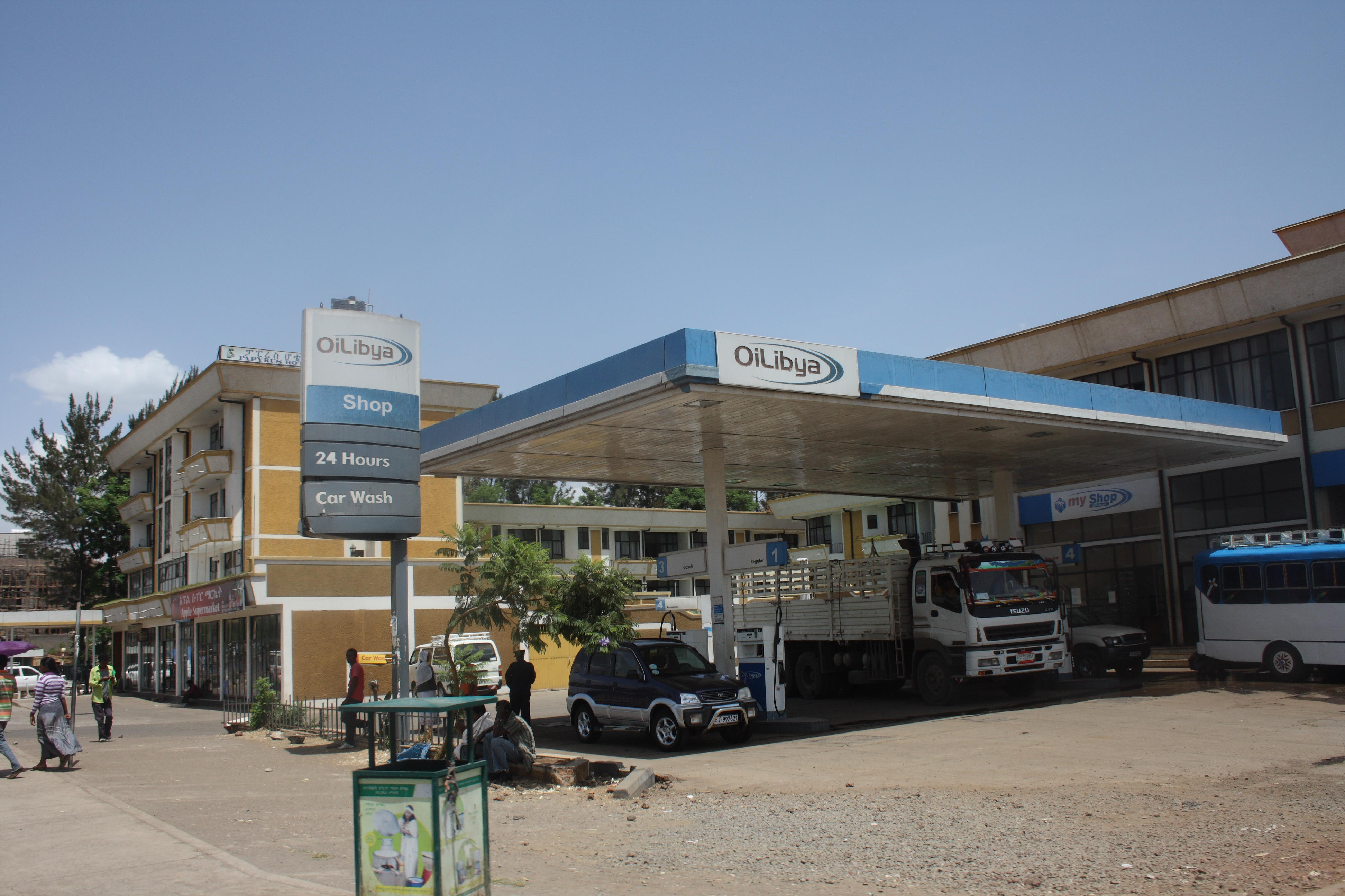 An OiLybia gas station at Dire Dawa, Ethiopia